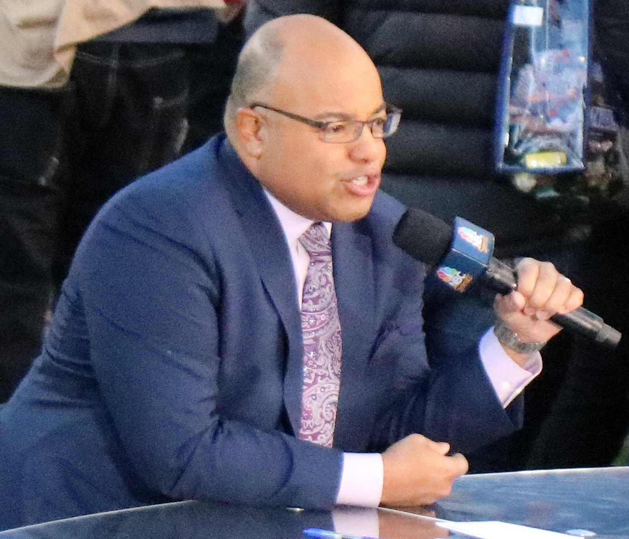 Mike Tirico, an American sportscaster.